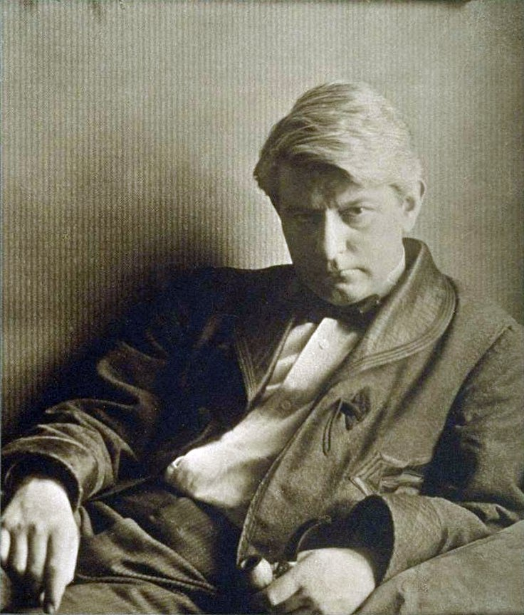 Frank Norris (1870-1902), American novelist.